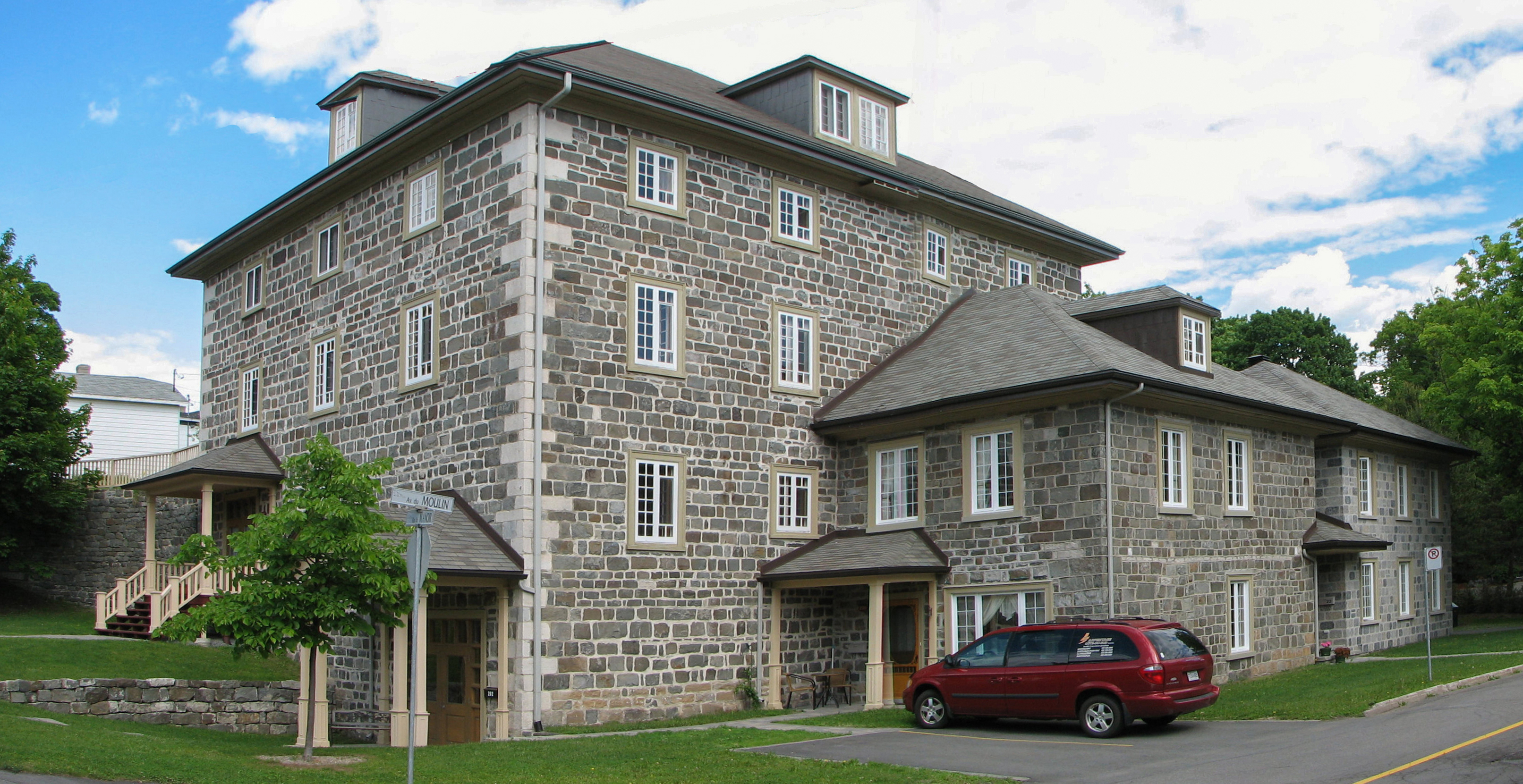 Ancient gristmill Sir William-Randal-Patton (1850), Montmagny, province de Québec, Canada